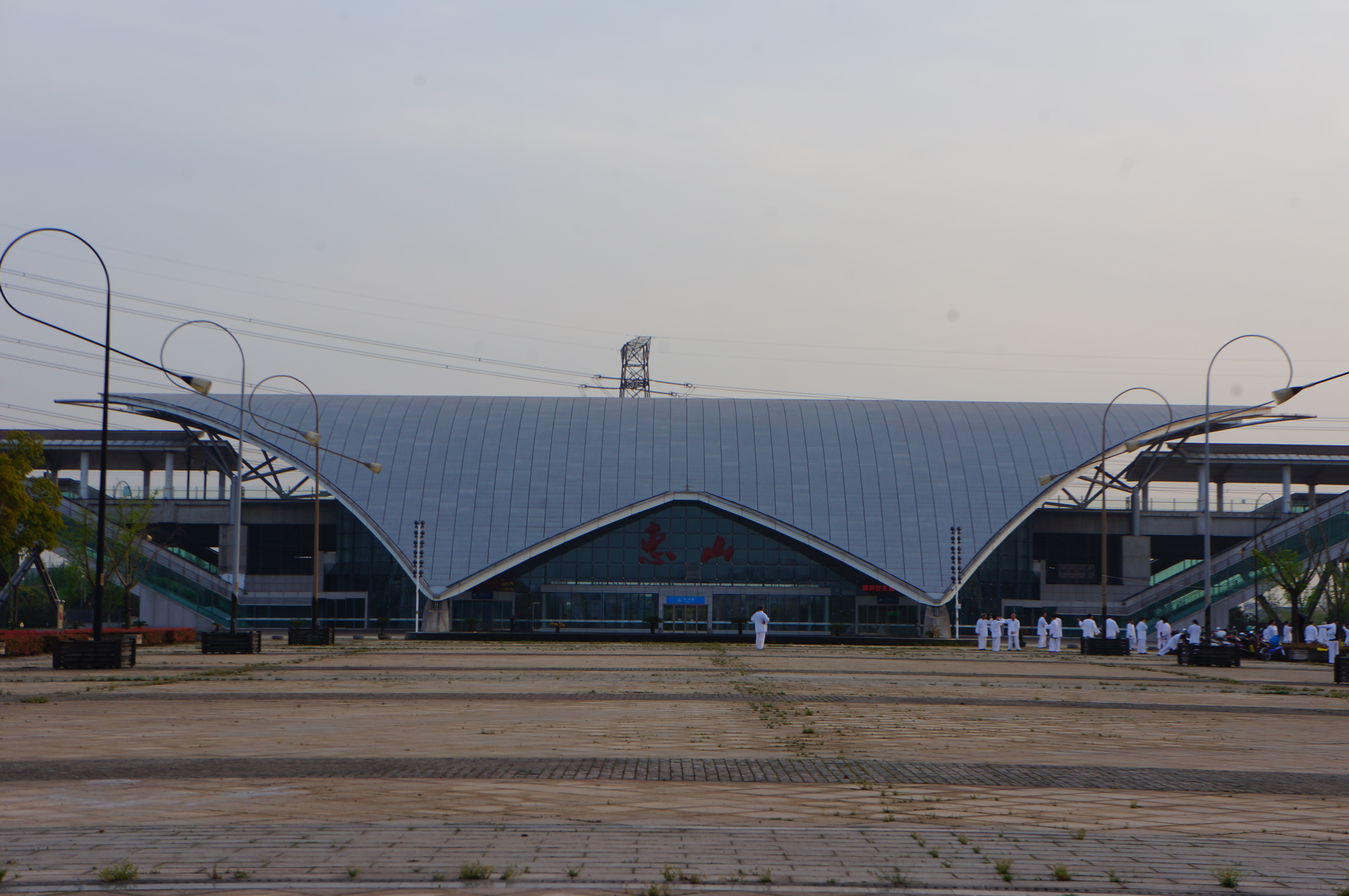 201704 Facade of Huishan Station. With a group of aging people do Taijiquan in the front.